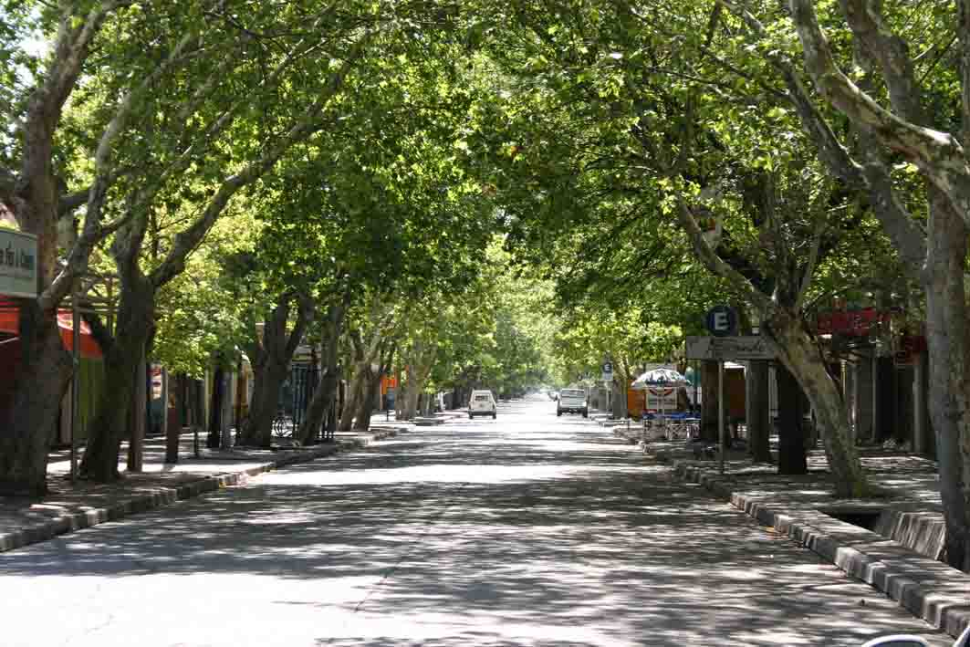 Center of San Rafael, province of Mendoza, Argentina